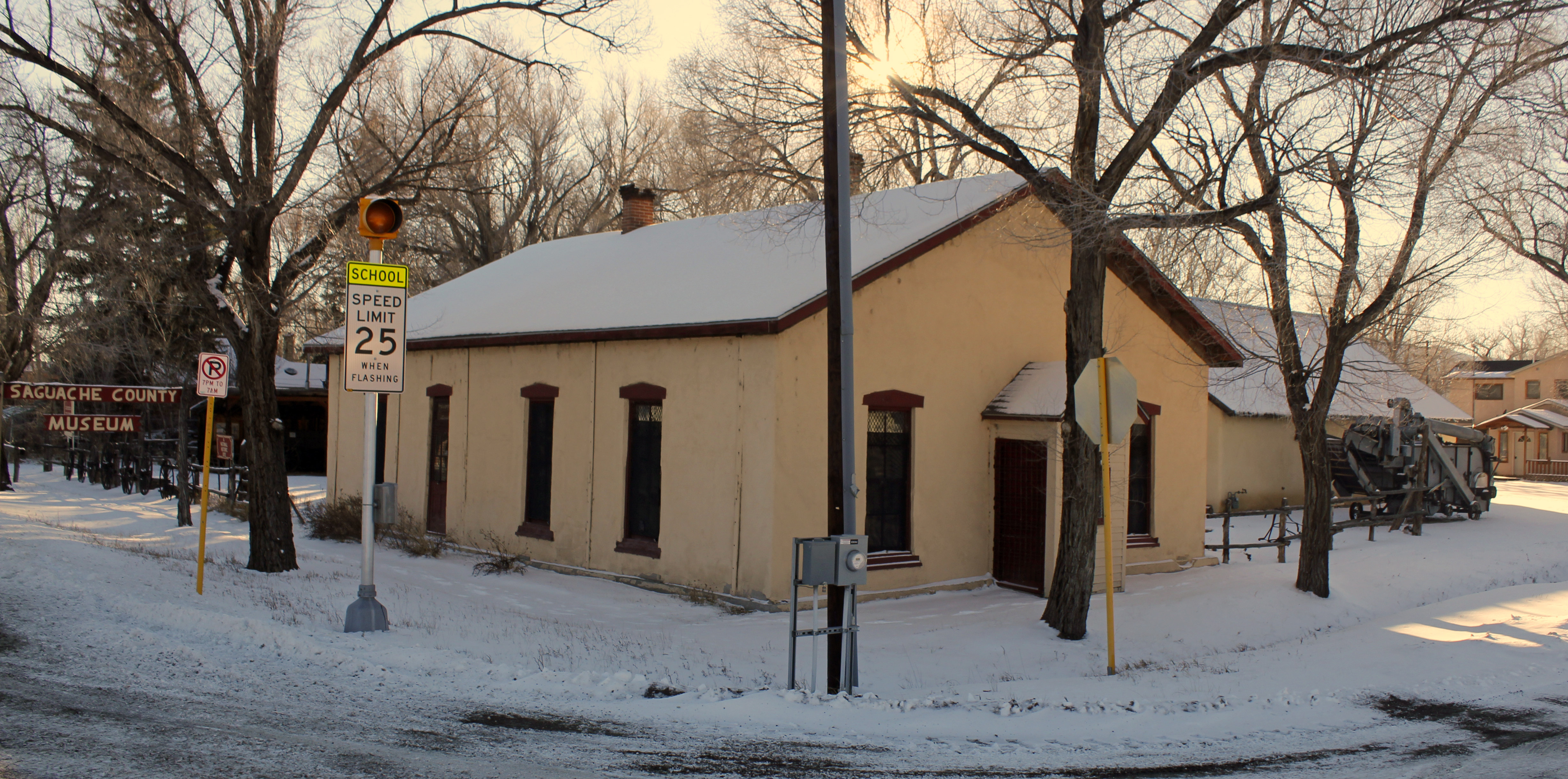 The Saguache School and Jail Buildings, located at the intersection of U.S. 285 and San Juan Avenue in Saguache, Colorado. The property is listed on the National Register of Historic Places.